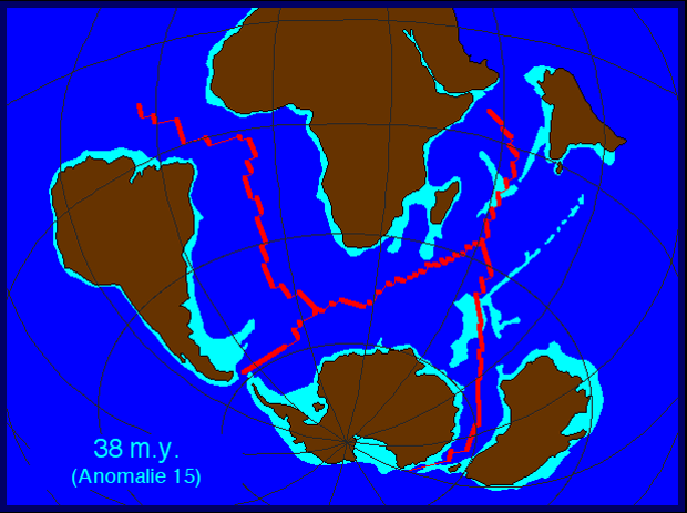 Breakup of Gondwana: position of continents on the Southern hemisphere 38 Million years ago